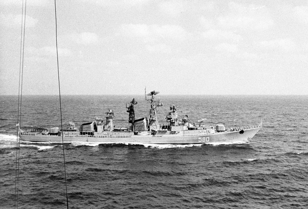 “Submarine hunter Steregushchy”. The submarine hunter Steregushchy, of the Pacific Fleet, at sea.